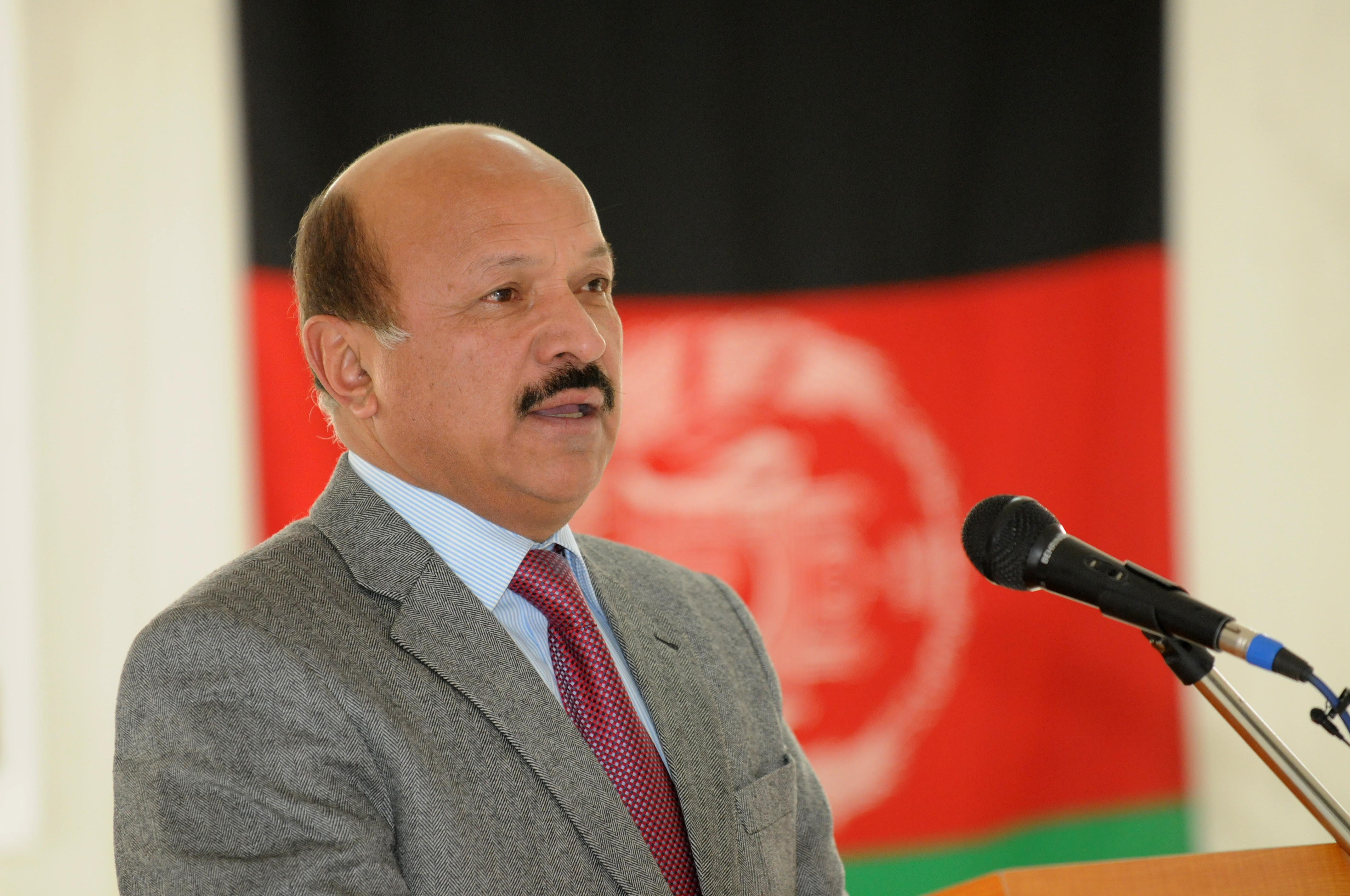 Kabul's Mayor, Yunus Nawandish, speaks at a graduation for the Vocational Training and Turkish Language Certificate Program. The program teaches class in many areas including computer operations, carpentry, and agriculture. (ISAF photo by MCC Jason Carter)